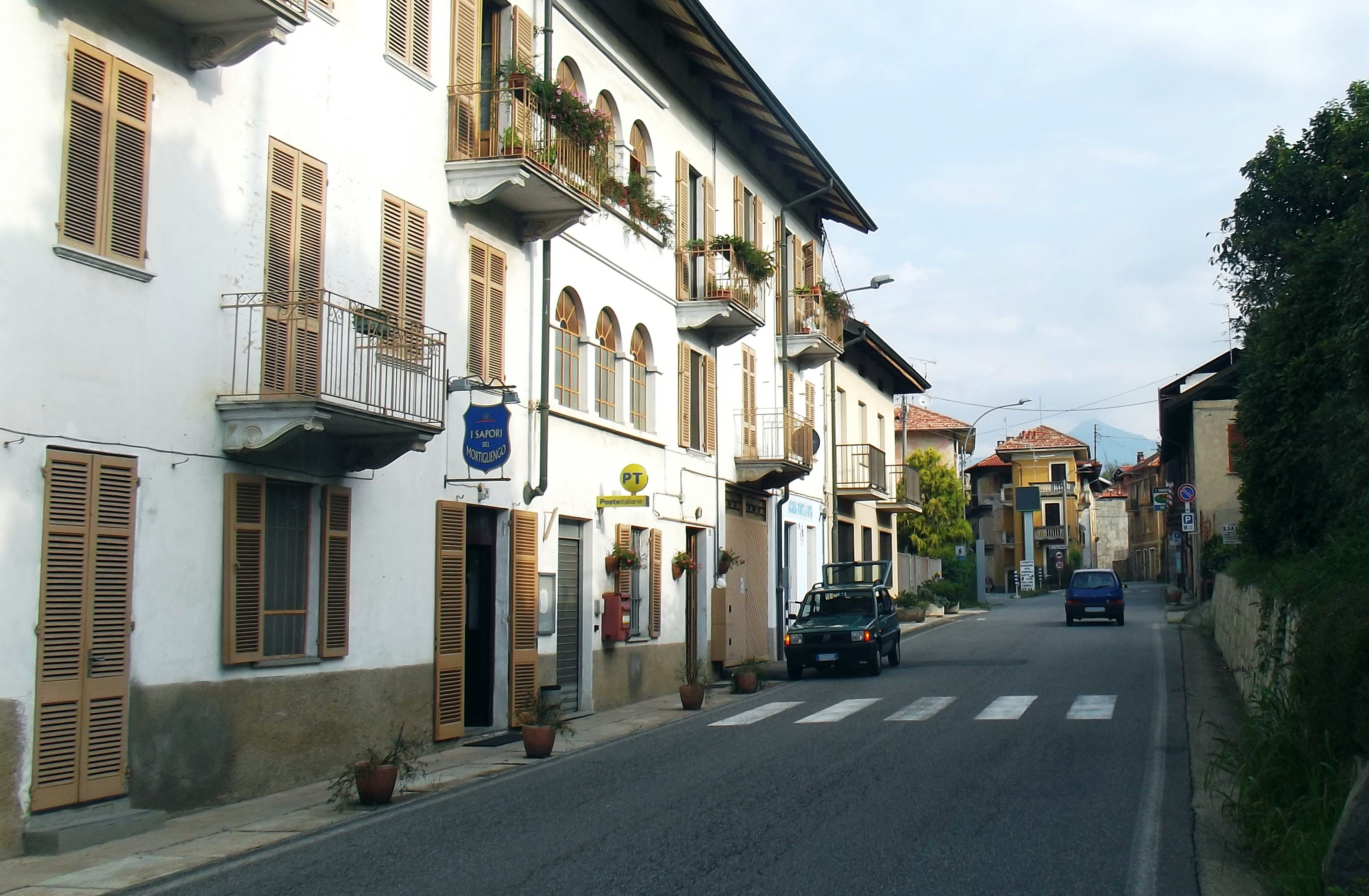 Crosa (BI, Italy): the south entrance of the village